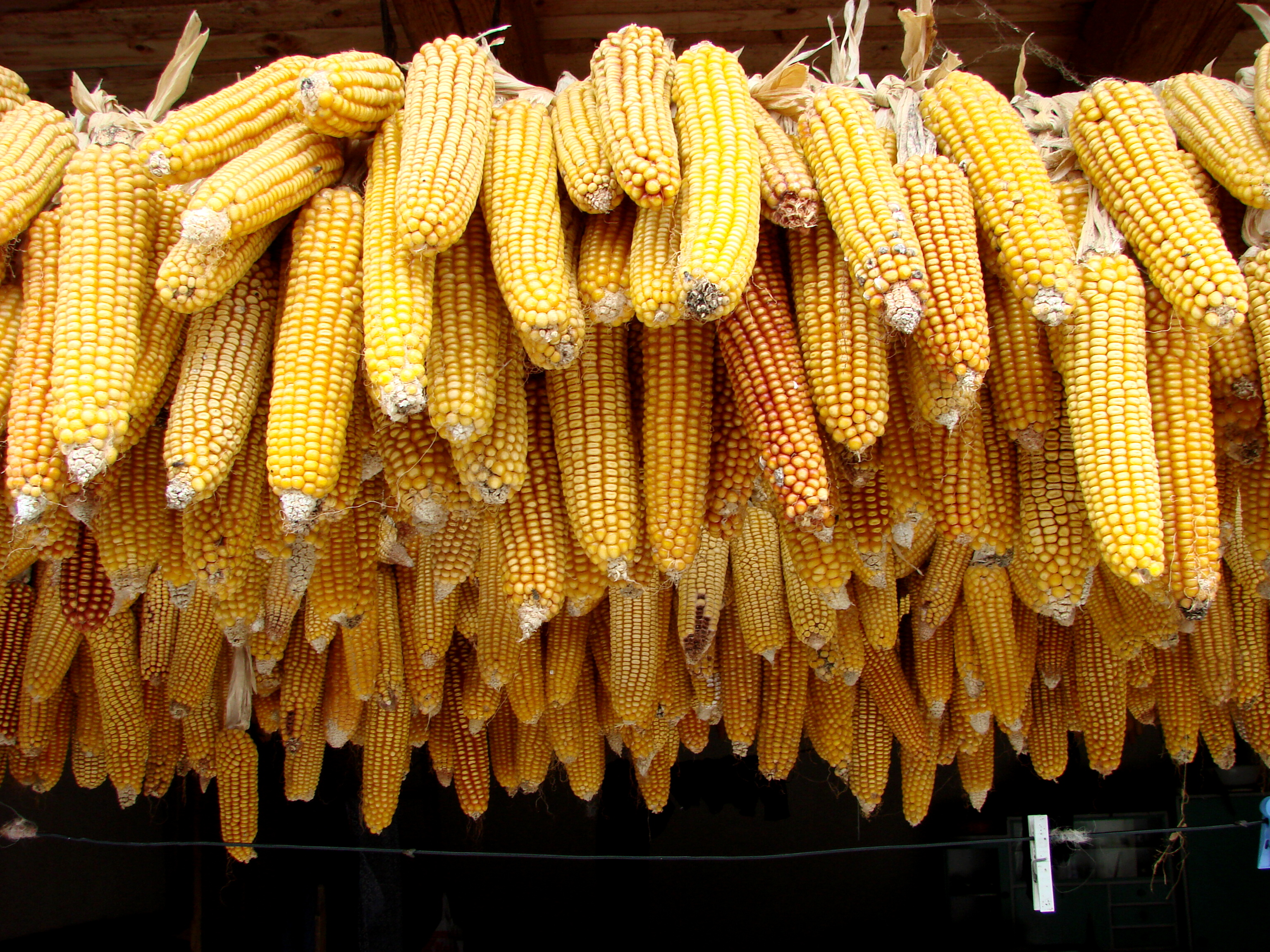 Corn cobs for sale, Sapanta, Romania. June 2007.